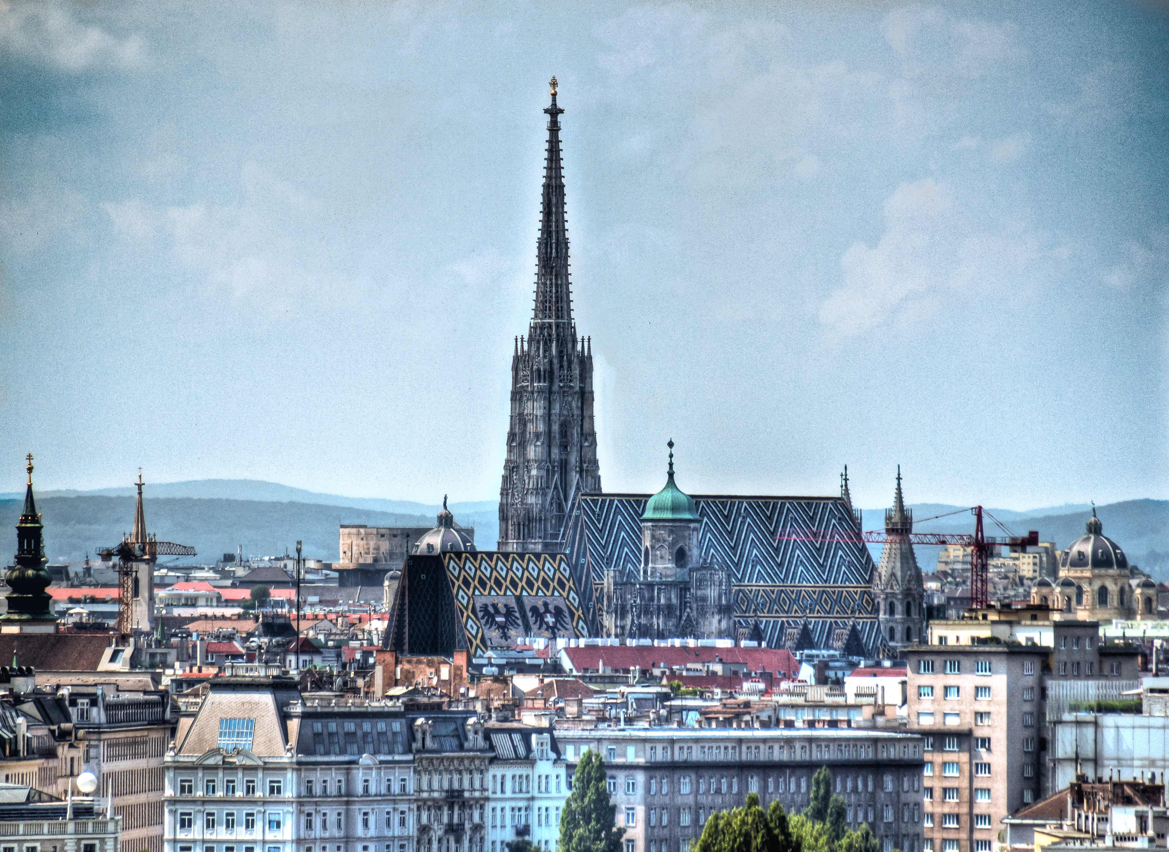 I take a picture every day - you can find it here